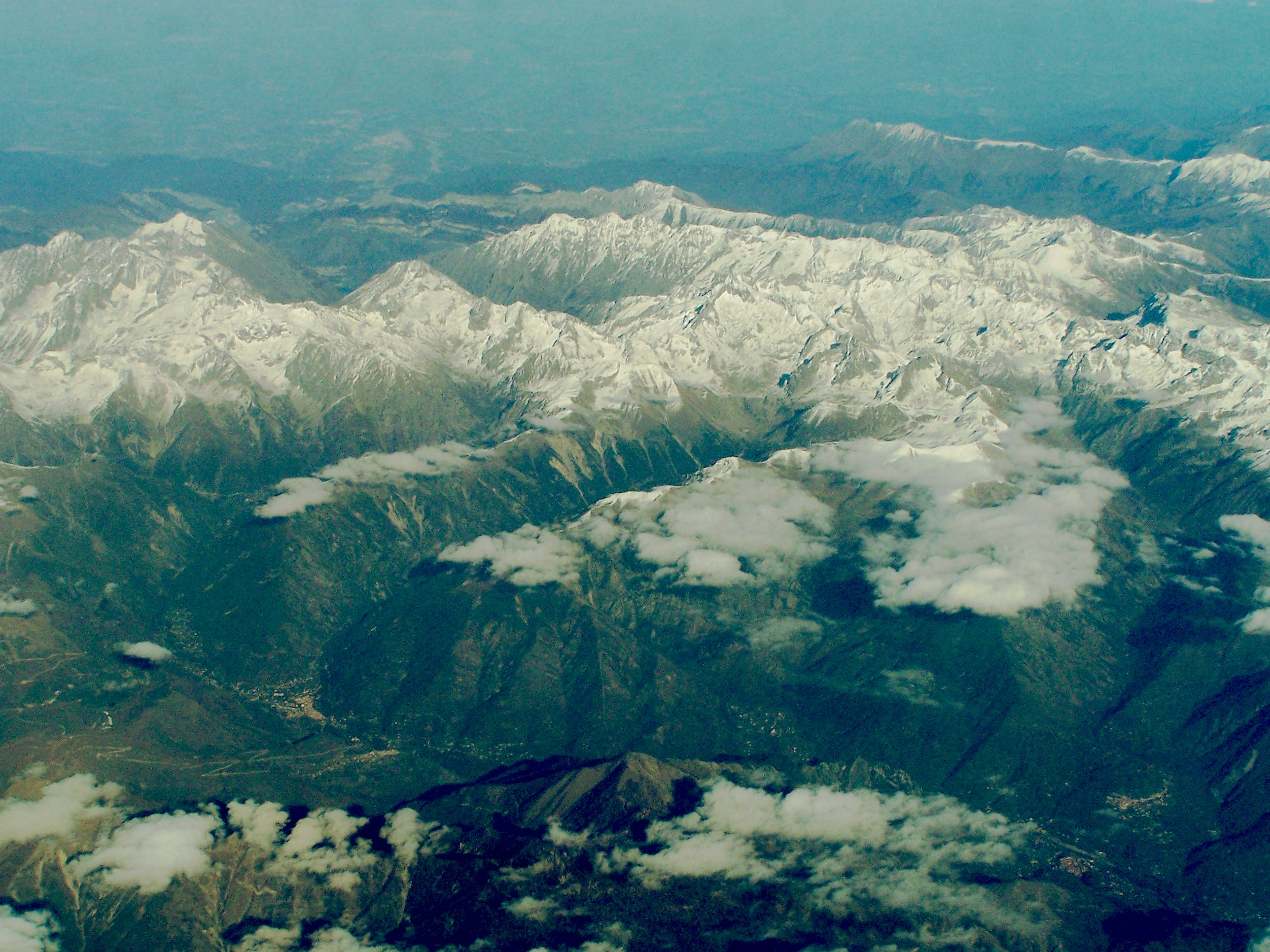 Maritime Alps, line of sight north-north-east, from left to right in the front the valley of the Vésubie, in the left half of the picutre in the valley there is St.-Martin-Vesubie. There branches of Vallon de la Madone de Fenestre, direction east (mid of picture). The first, snow capped range is the border between France and Italy. On the right side Colle di Tenda and behind it the Ligurian Alps